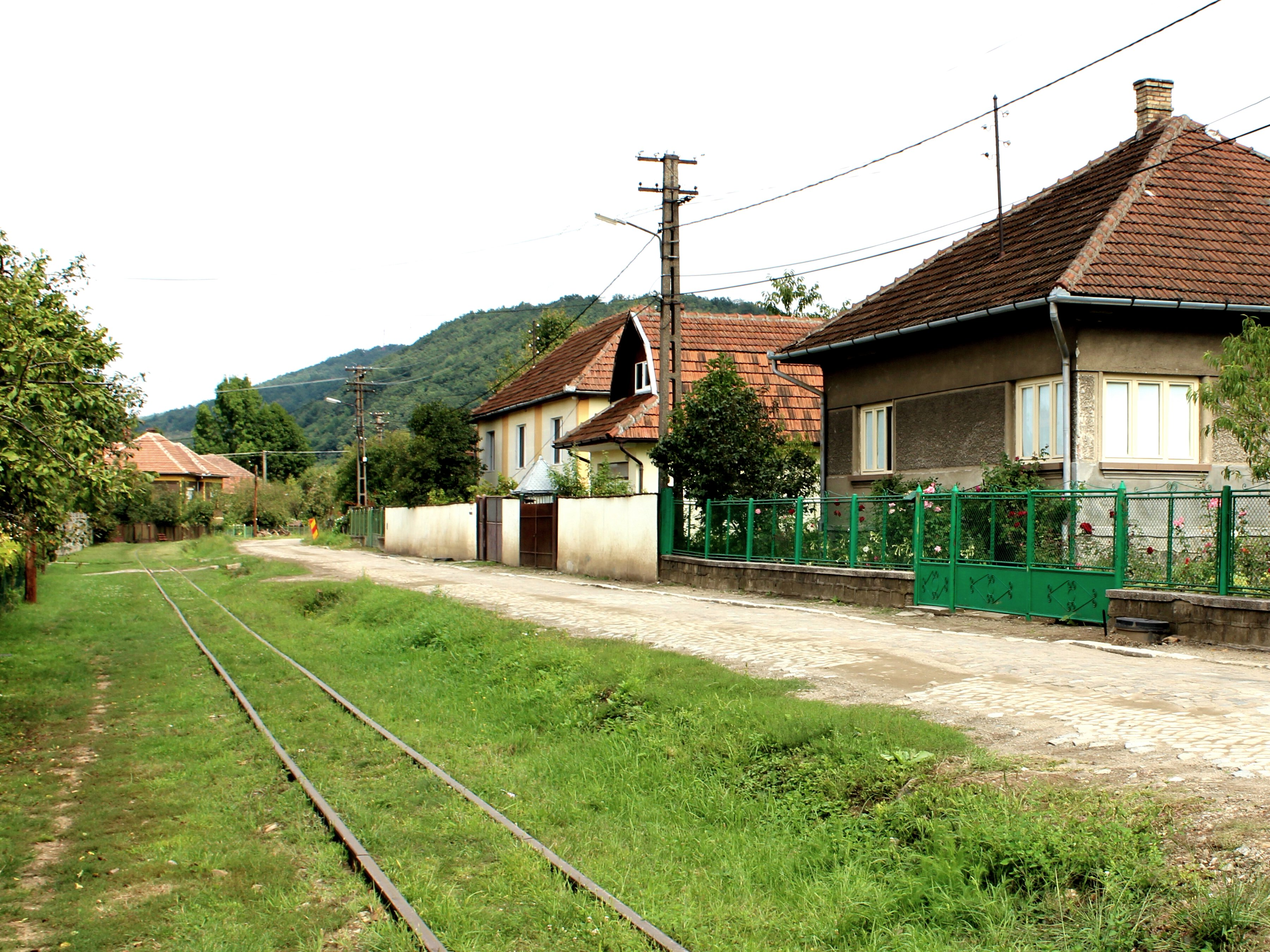 Industrial narrow gauge railway, str. Zarandului, Brad, Romania